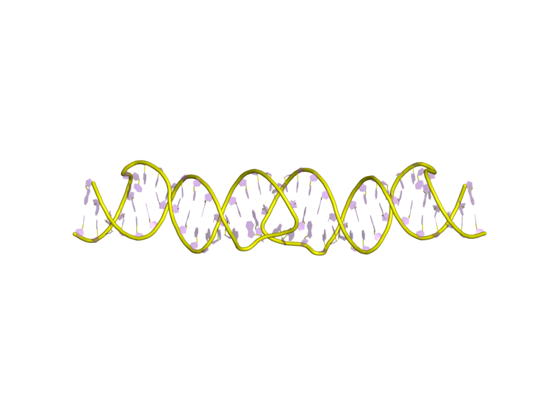 Cartoon representation of the molecular structure of protein registered with 2d1b code.